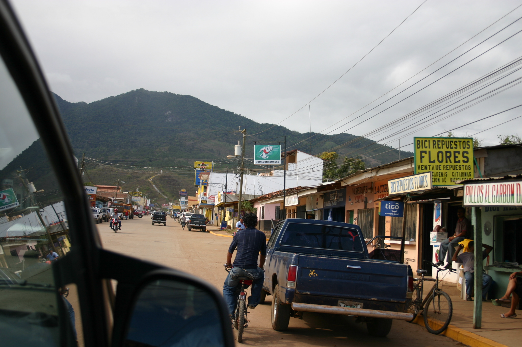 City Center, Catacamas, municipality in the Honduran department of Olancho.